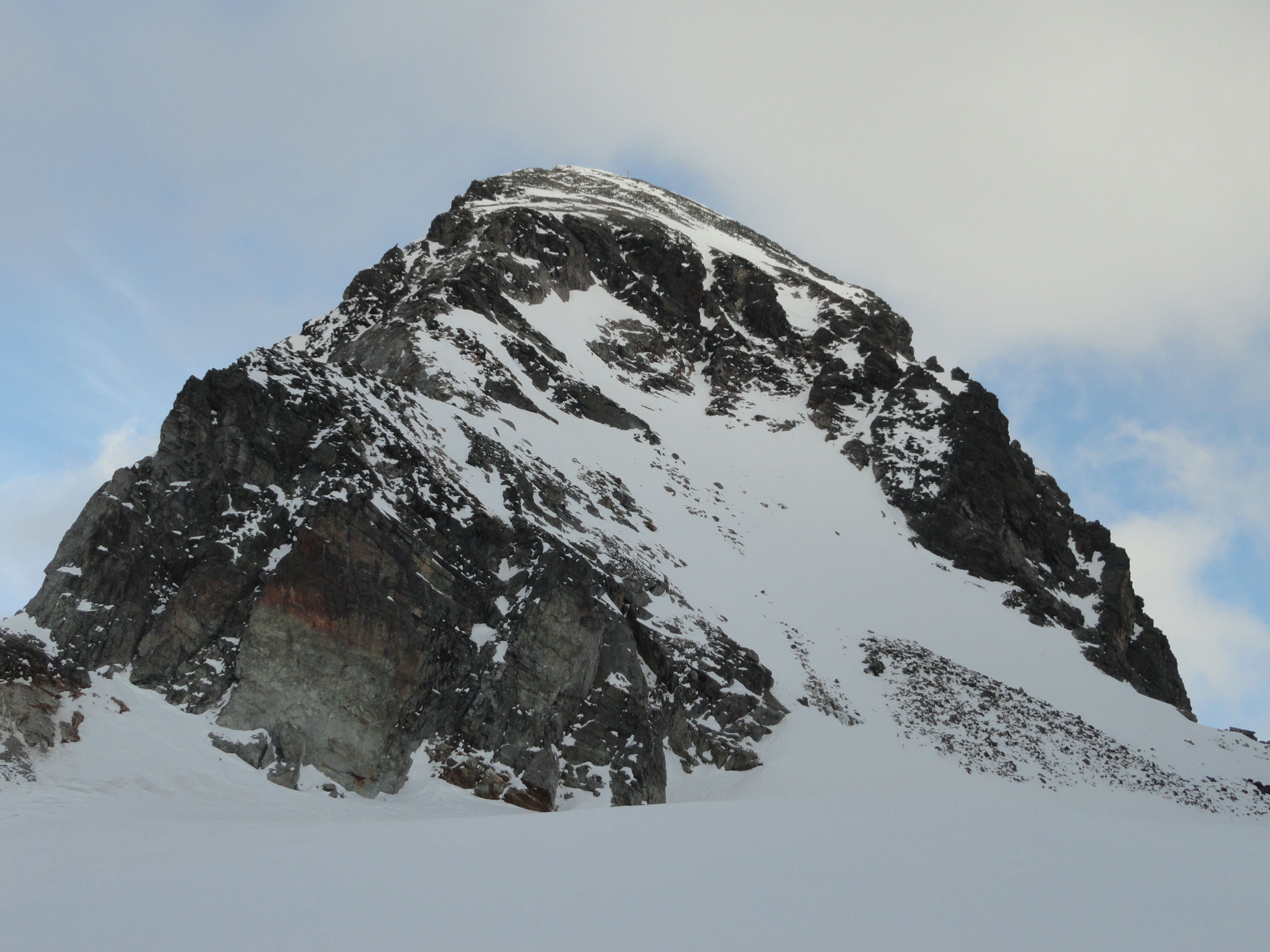 Piz Buin from NW (Ochsentaler Gletscher)